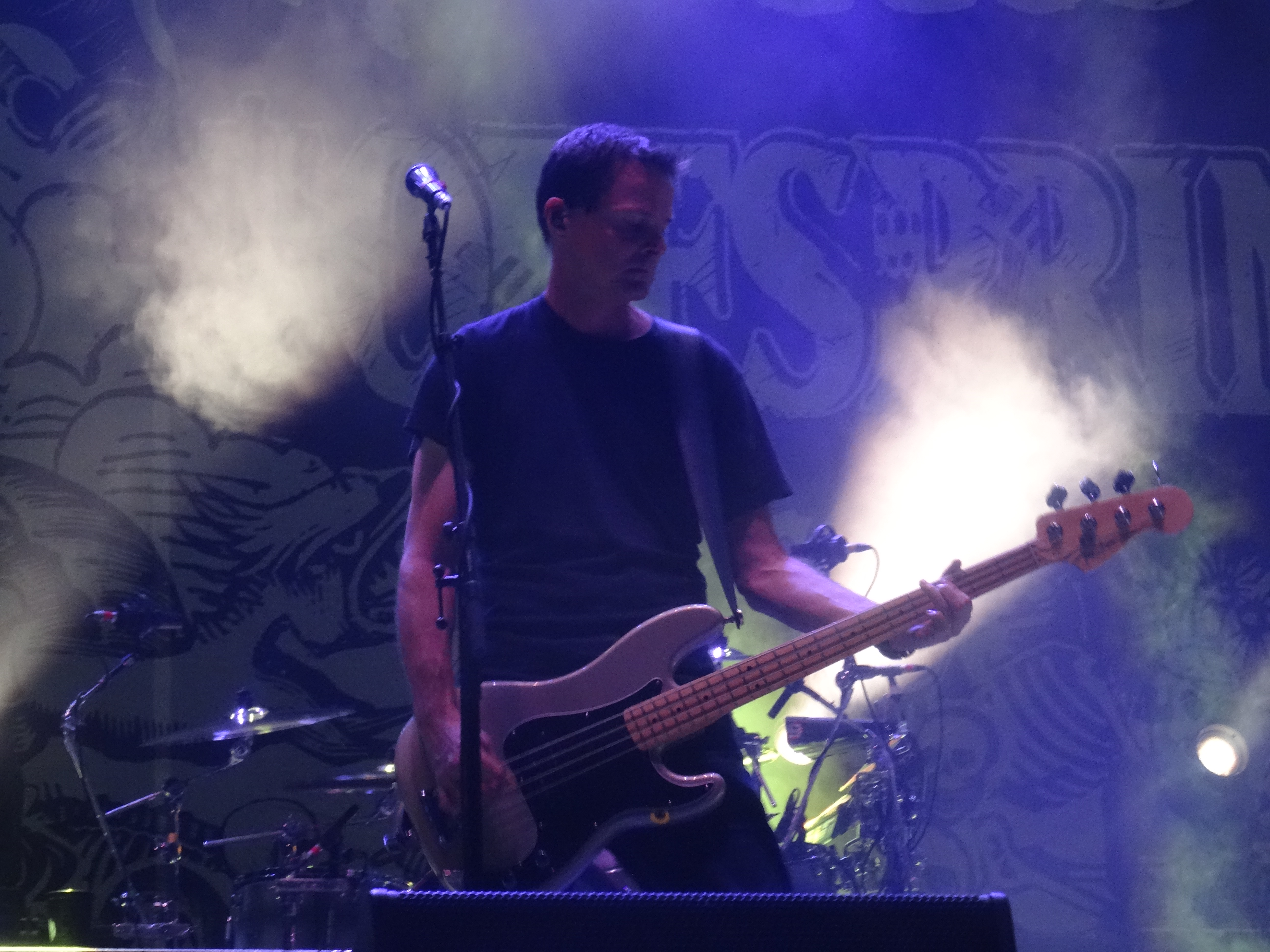 Greg Kriesel live in Rome